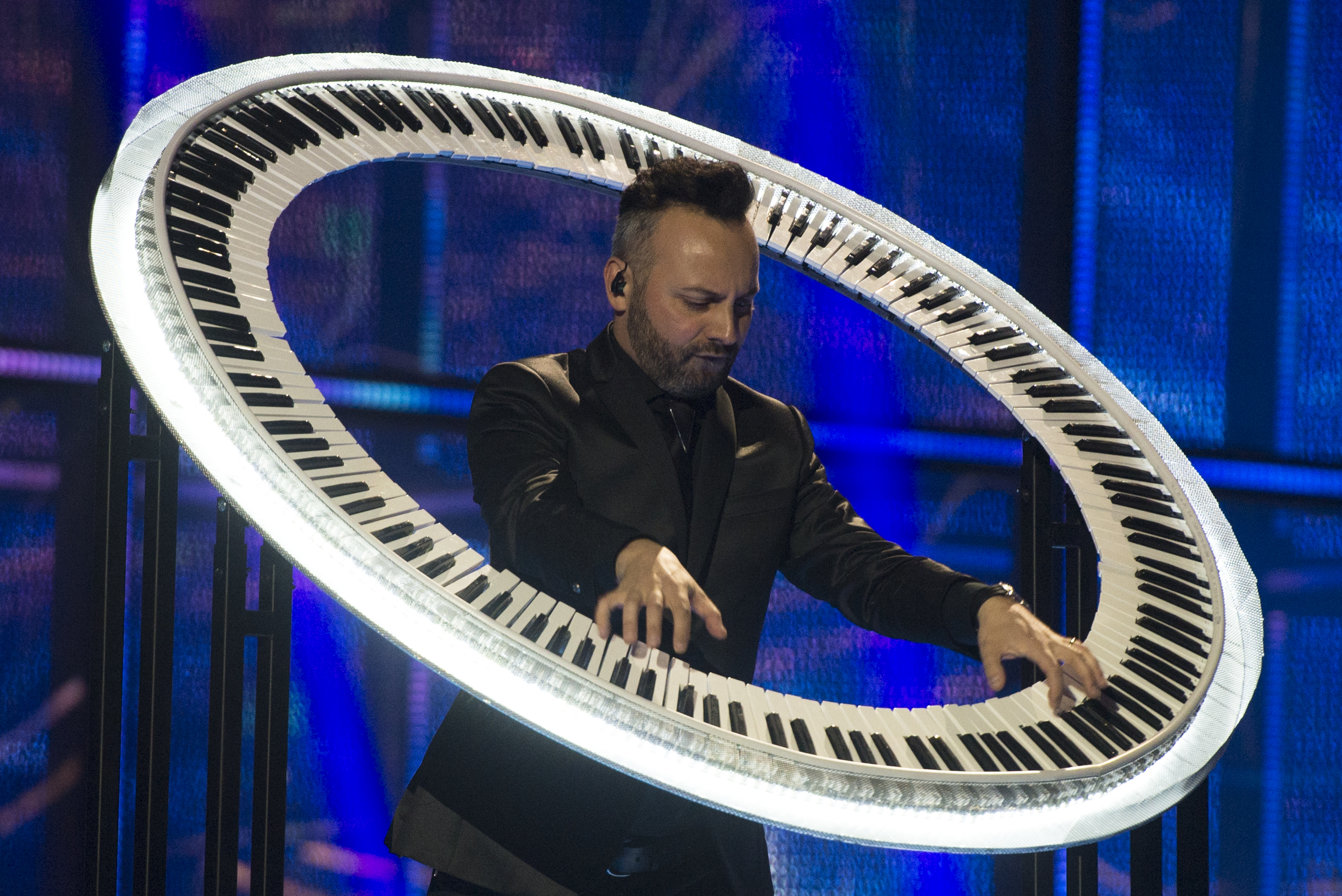 Paula Seling and Ovidiu Cernăuțeanu representing Romania with the song "Miracle" during the first dress rehearsal of the second semi final of the Eurovision Song Contest 2014 Copenhagen. (Help translate this text)